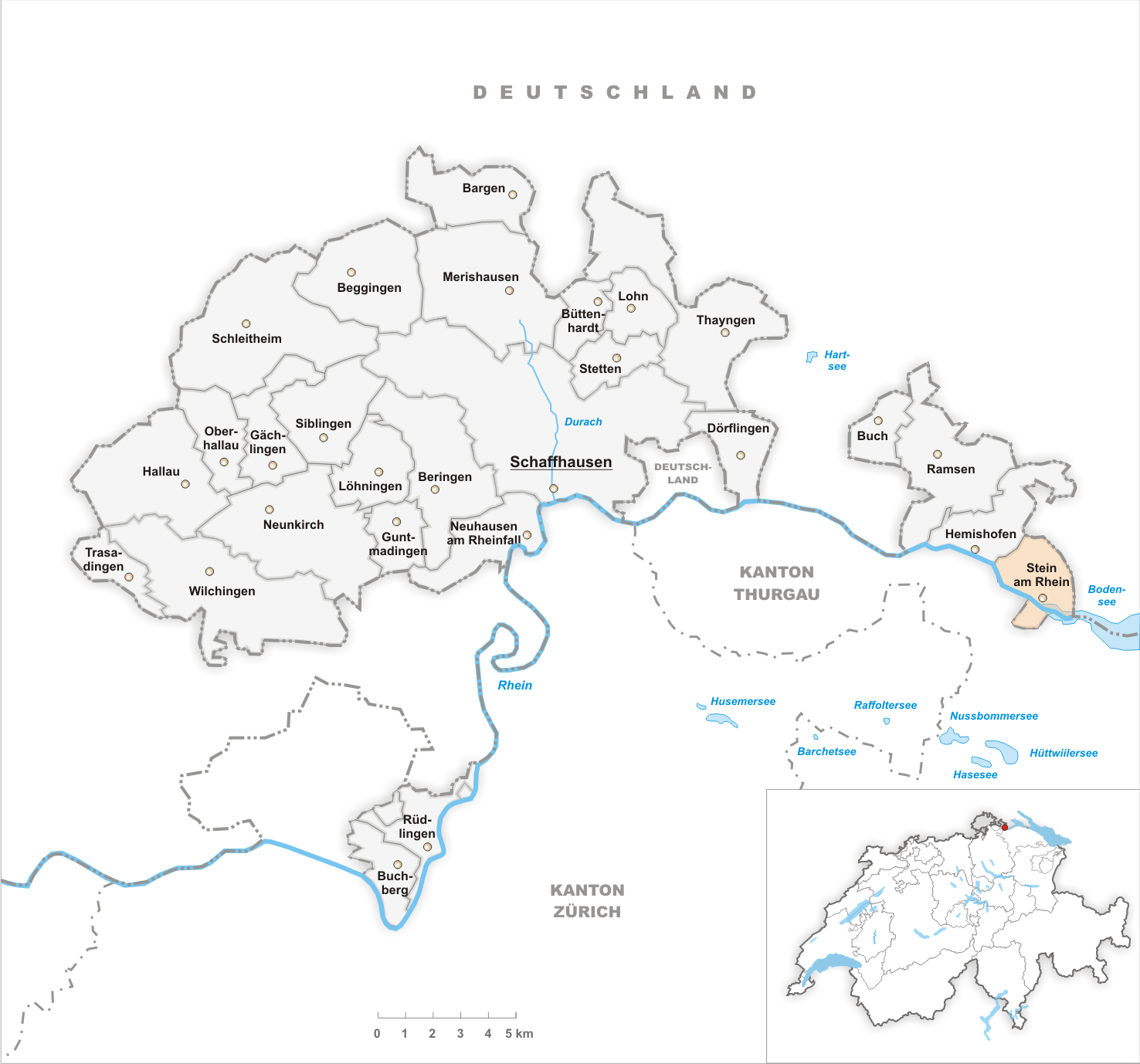 Municipality Stein am Rhein